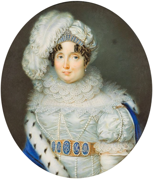 Portrait of Maria Theresa of Austria-Este, Queen of Sardinia (1773-1832)